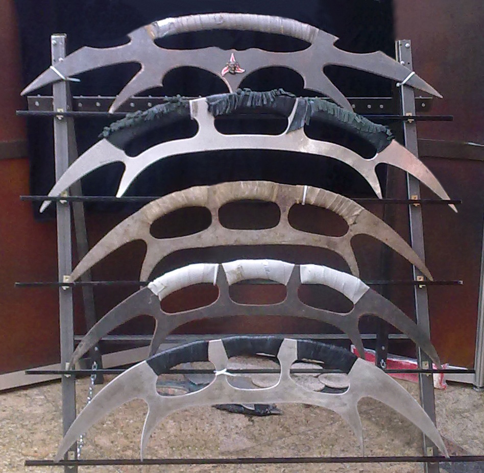 Klingon Bat'leths at the booth of Khemorex Klinzhai at FedCon